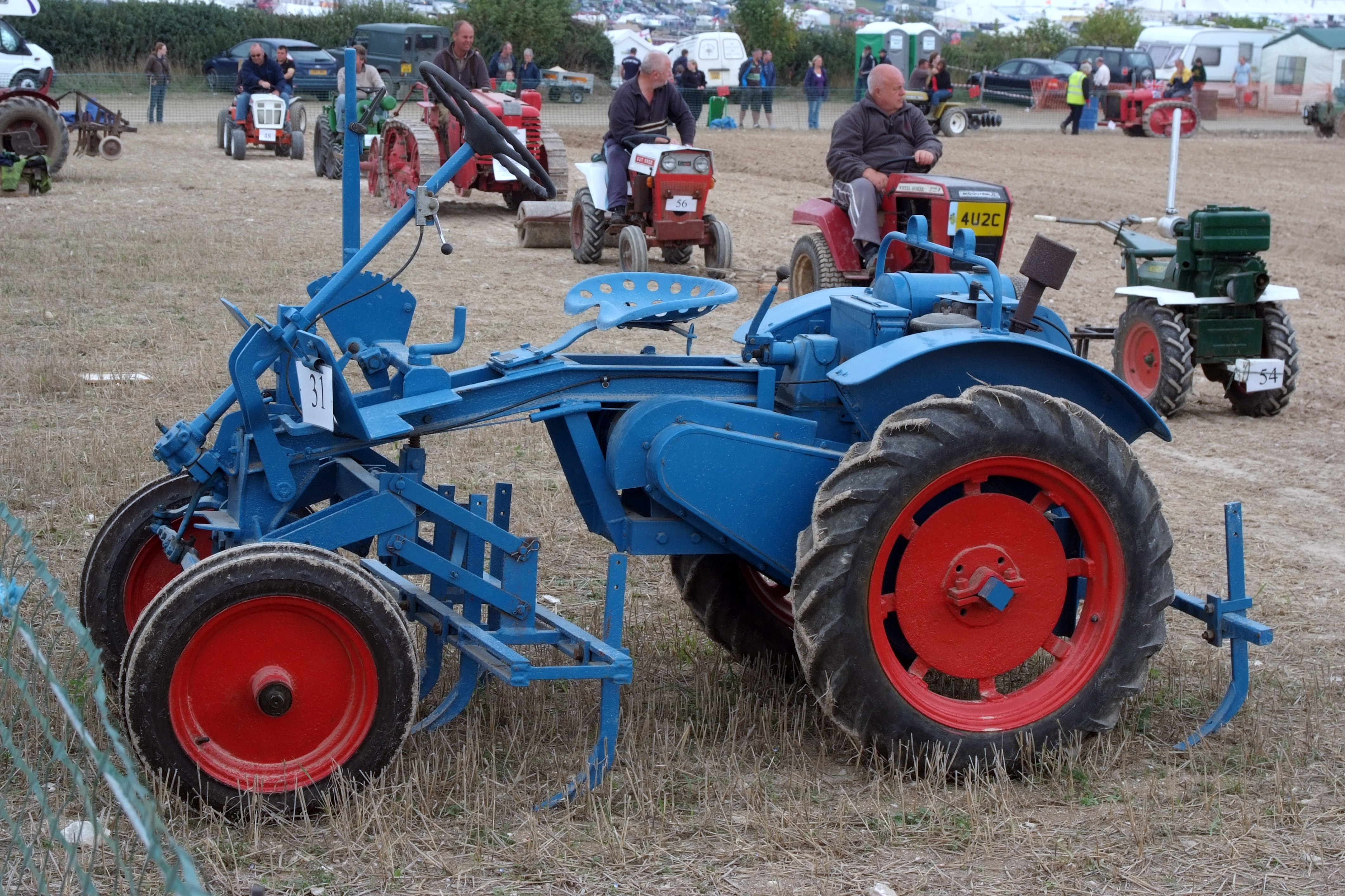 Unidentified type of implement carrier tractor; photo taken somewhere in Europe presumably (Edit Note: It's a Garner tractor at what appears to be the Great Dorset Steam Fair)